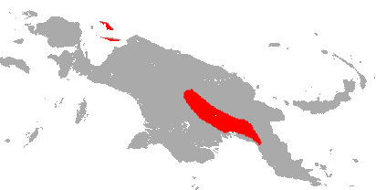 Greater Sheath-Tailed Bat (Emballonura furax) range